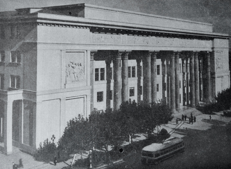 Tbilisi, Georgia, photograph of Institute of Marx Engels Lenin Building on Rustaveli Boulavard